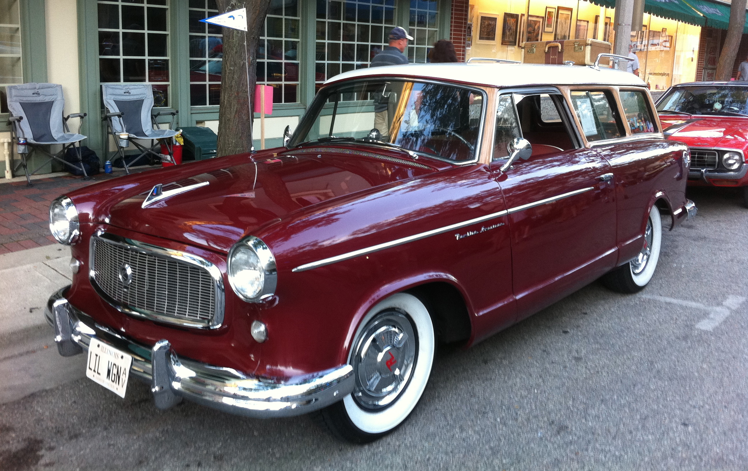 1960 Rambler American 2-door station wagon, a compact by American Motors Corporation (AMC) -- the first generation design. Painted in optional factory two-tone finish.